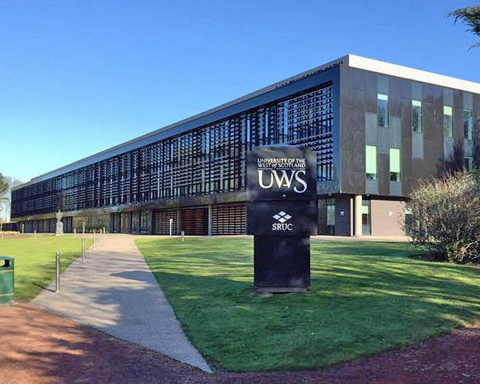 Ayr Campus of University of the West of Scotland